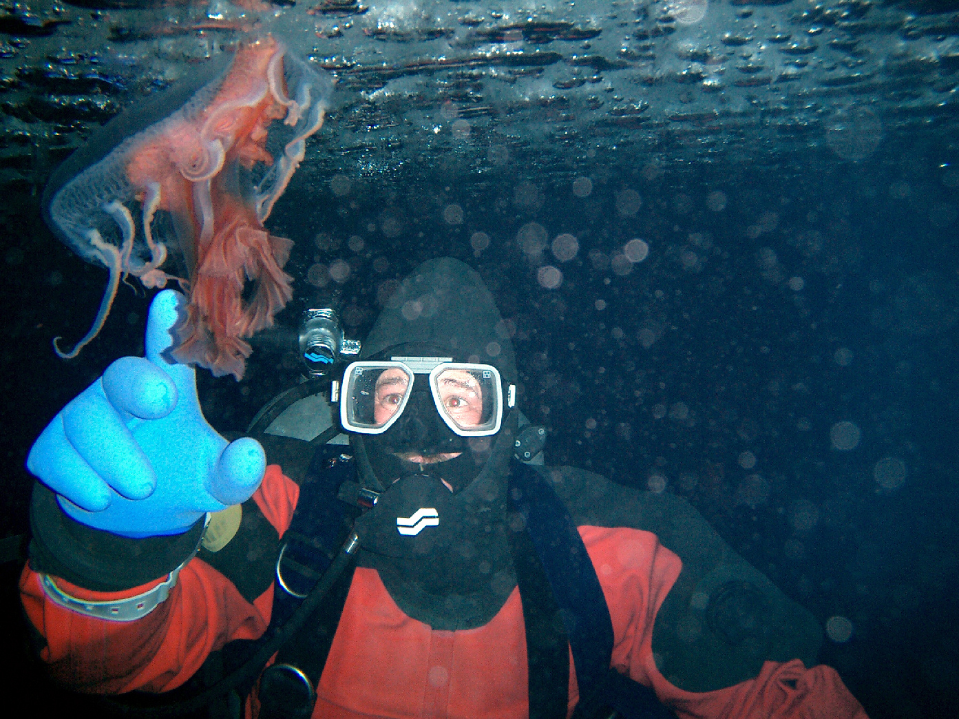 Research diver Dug Coons reaches towards a jellyfish, one of the varieties of sea life that thrive in the -1.5 degree centigrade salt water of McMurdo Sound.